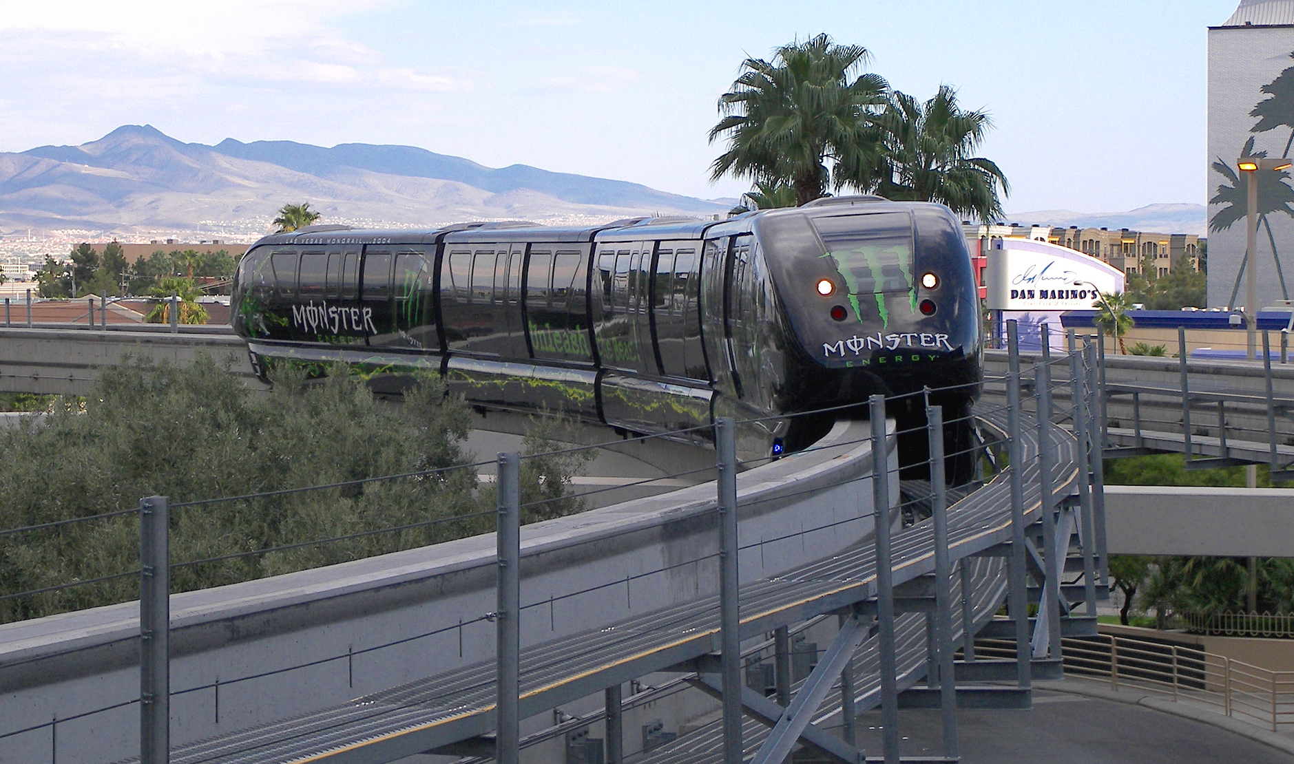 The Las Vegas Monorail coming into the MGM Grand Monorail Station, Paradise, Nevada, United States.